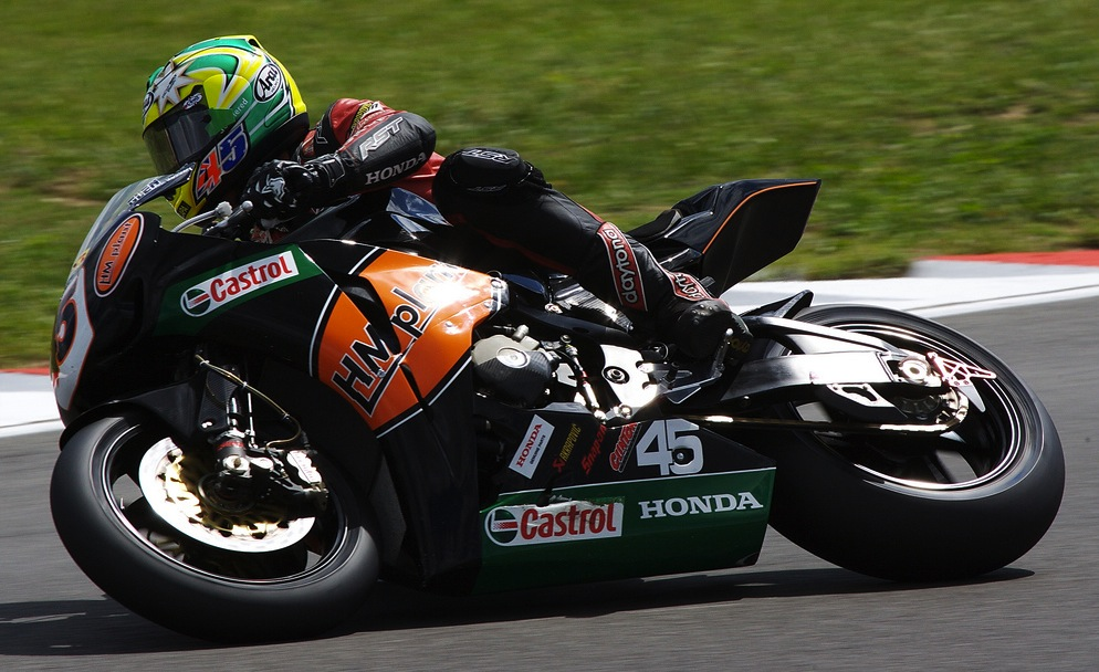 Glen Richards riding the HM Plant Honda at the 2009 British Superbikes at Snetterton